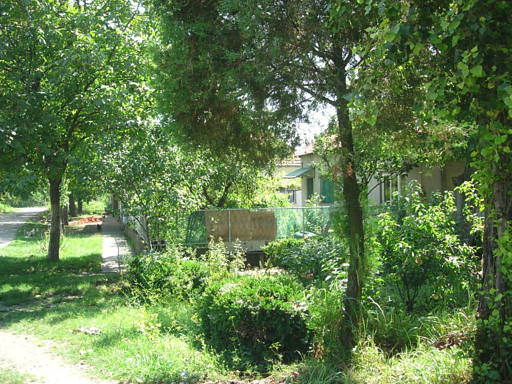 A house in Pločica